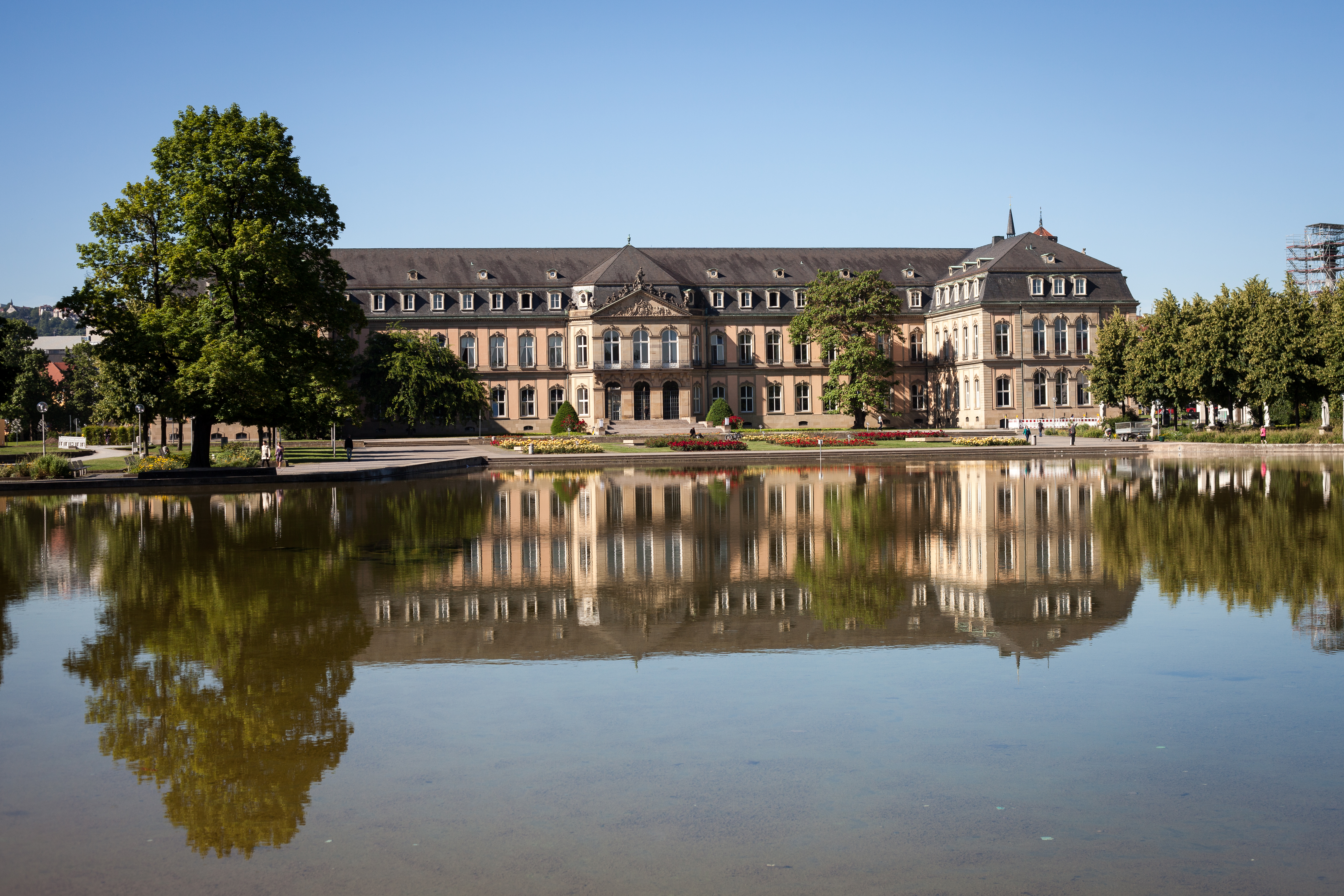 New Palace in Stuttgart, Germany. View from the north, Eckensee in the foreground.